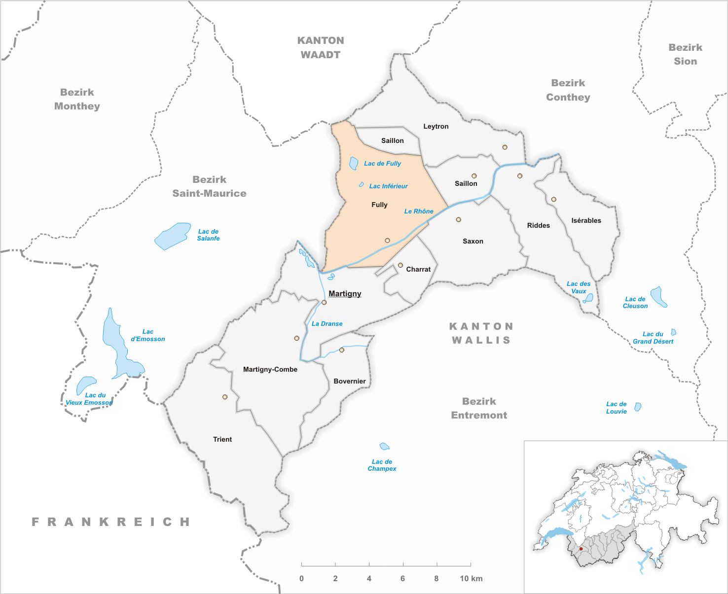 Municipality Fully